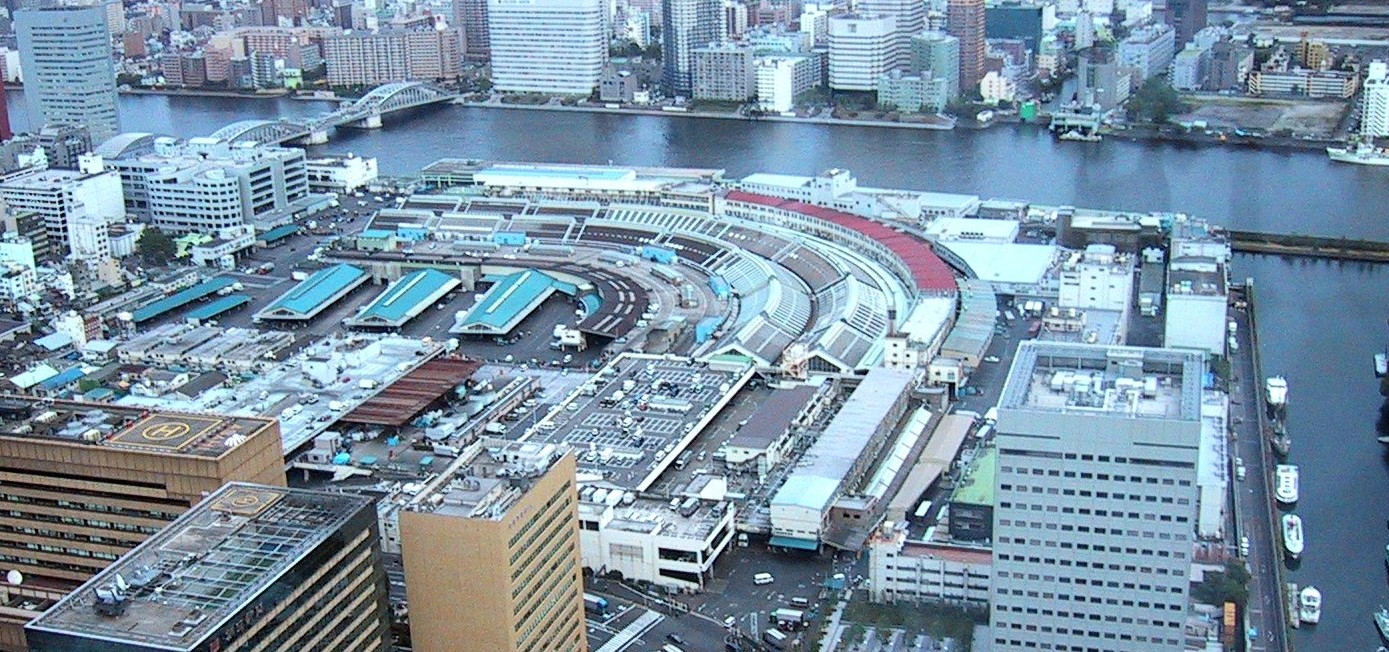 The Tsukiji fish market as seen from Shiodome